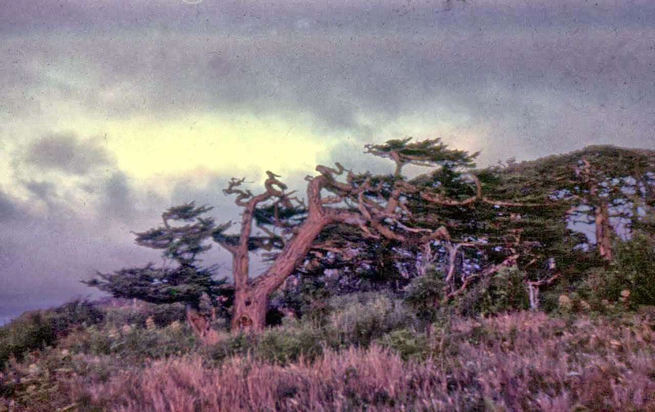 Trees under permanent wind, 1981